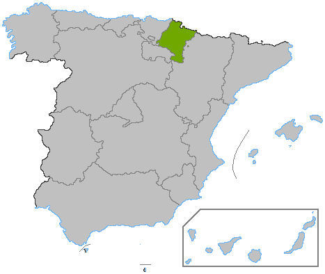 Location of Navarre, in Spain. Basado en: ProvPont.jpg Source: Designed by Satesclop. Original picture, designed by Sobreira.